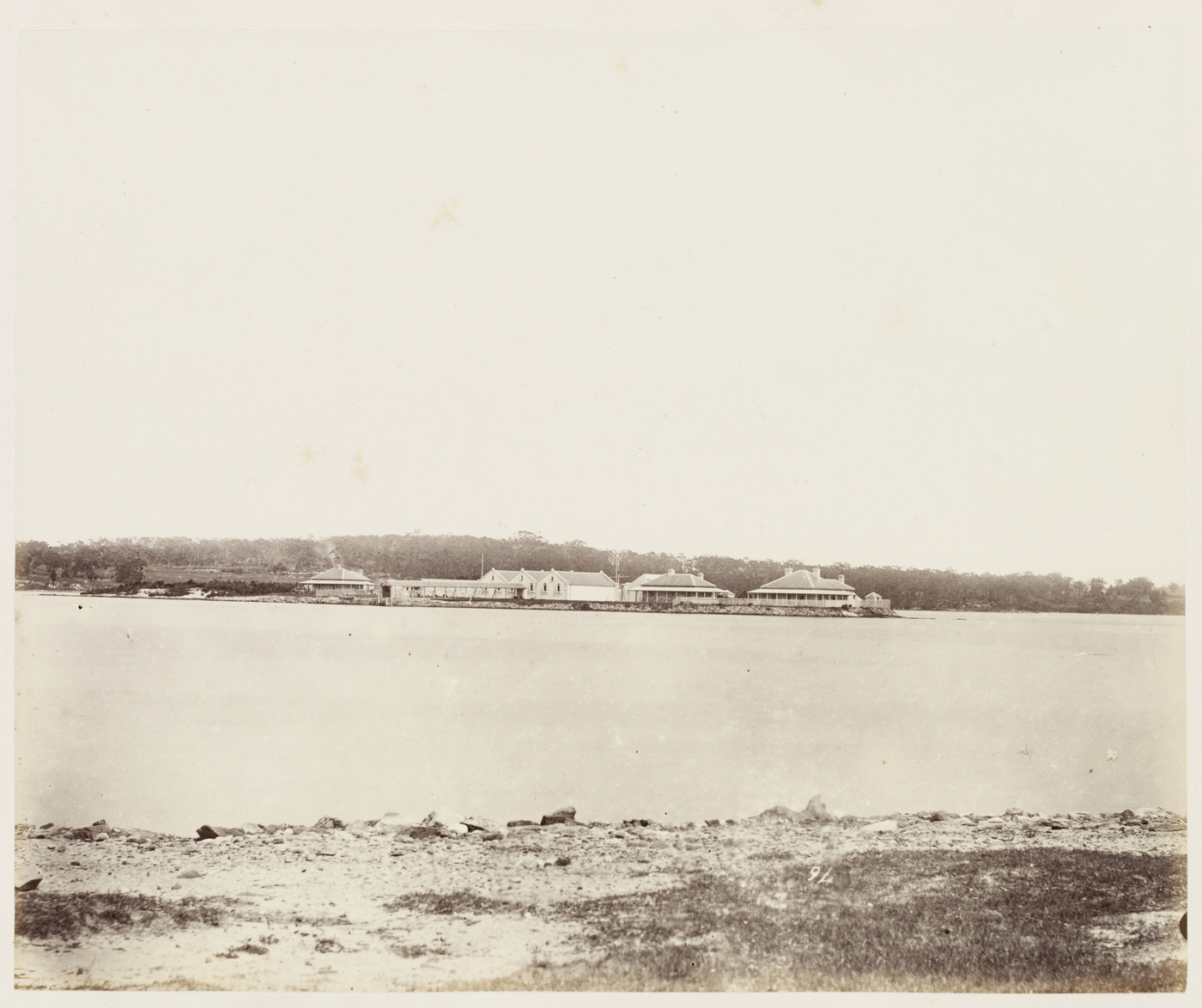 149. Spectacle Island, from Cockatoo Island SH 660